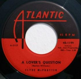 A Lover's Question